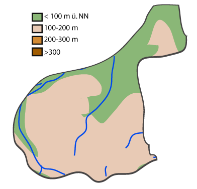 Topographical Map of Spenge, Kreis Herford (Germany)